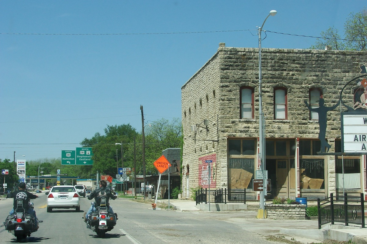 Downtown Hico, Texas